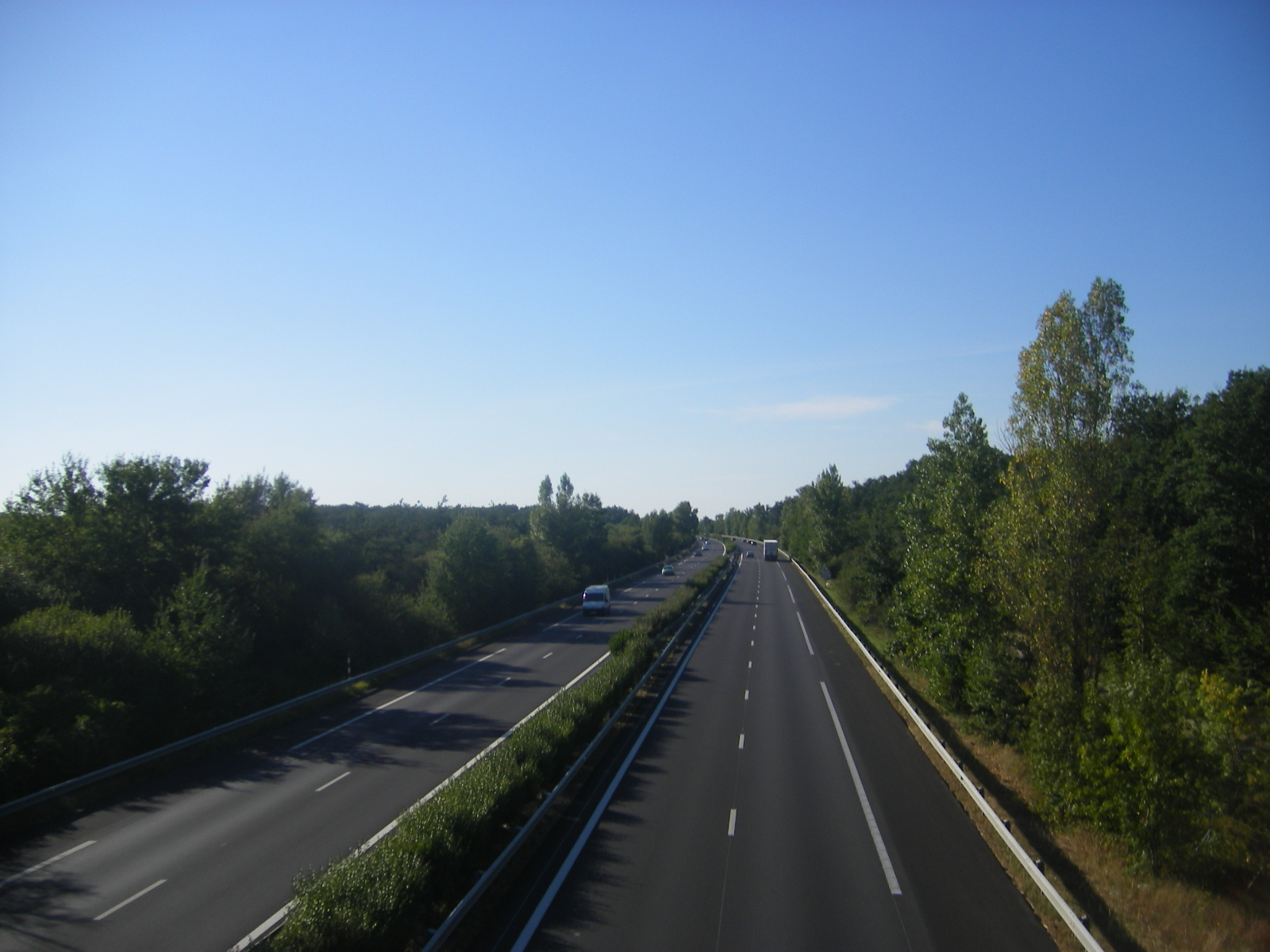 A62 autoroute crossing between Montauban and Montech